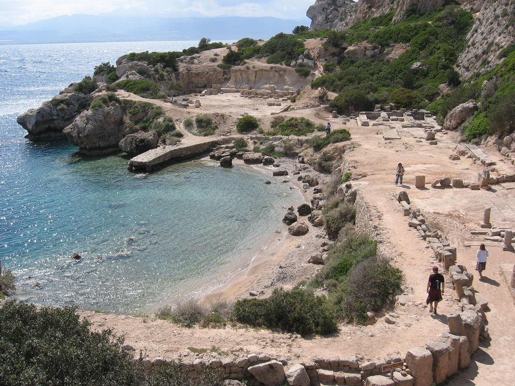 Heraion of Perachora